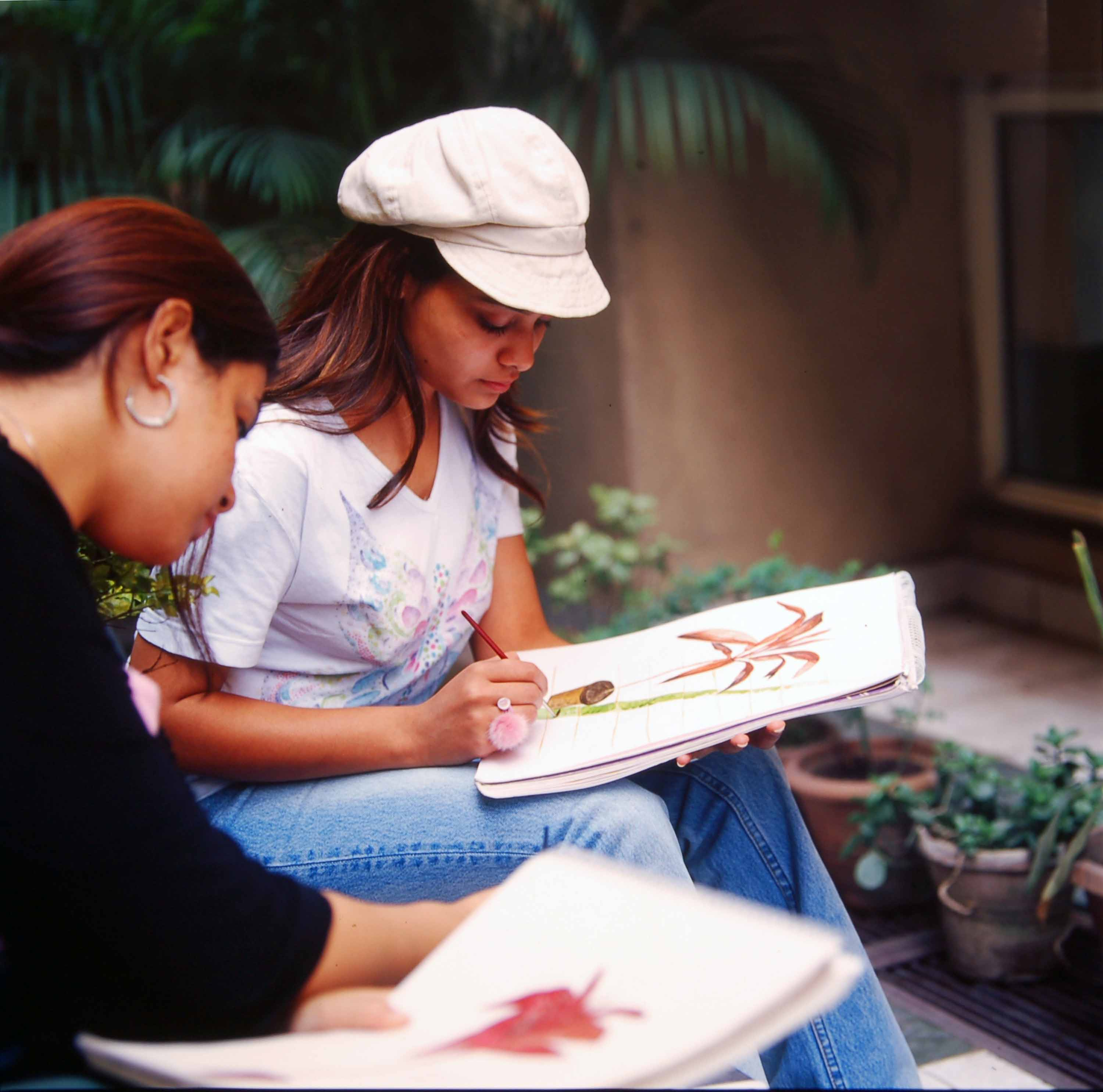 Students painting at the Pearl Academy of Fashion